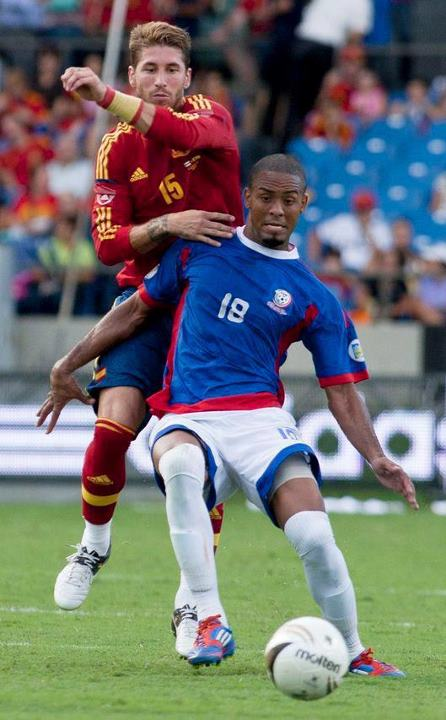 Hector Ramos against spain defense